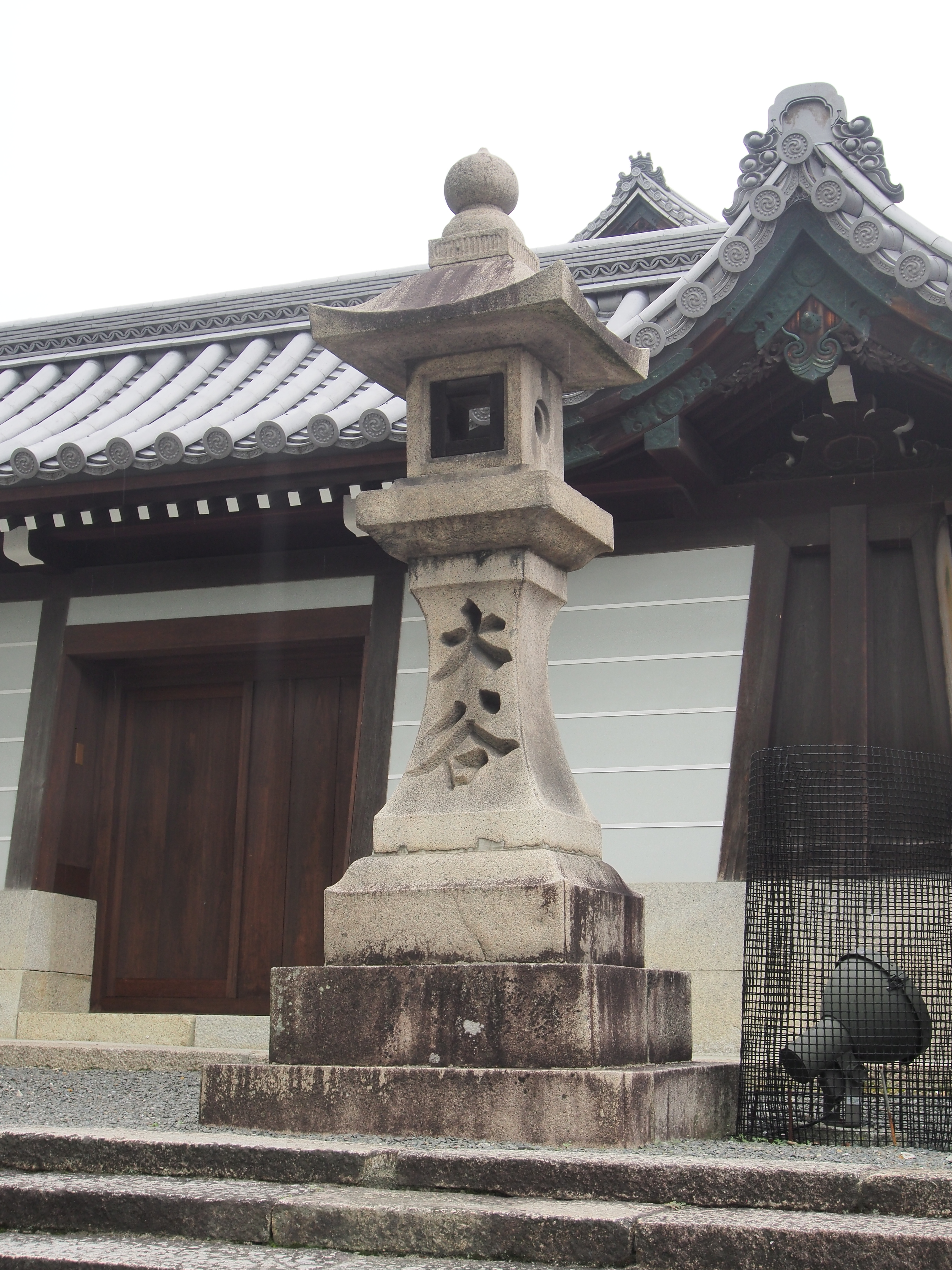 Stone lantern using Kitagi stone at Otani-hombyo